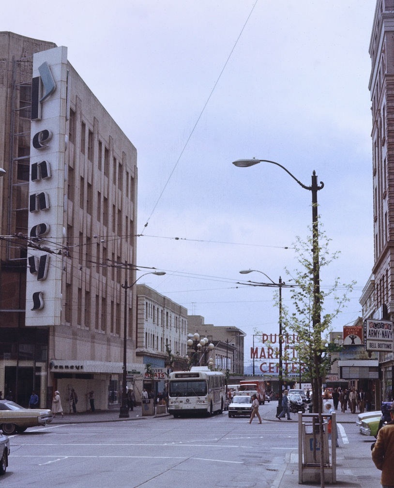 The Downtown Seattle Penney's store in May 1982, just after its closure. This view is looking west on Pike Street at Second Avenue, and the Pike Place Market sign is visible in the background. The former J.C. Penney department store building, which had been built in 1930, was demolished in 1989.